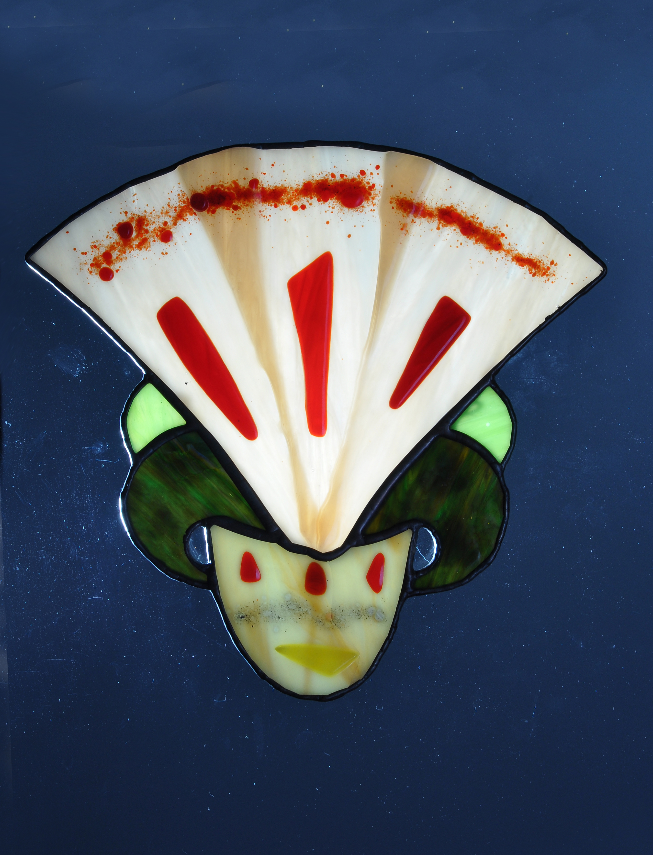 Fan_stained_glass_Pisha_Larysa_2000